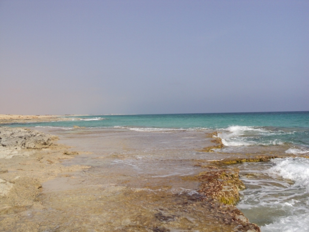 Libyan beach near the village of El Mallaha.